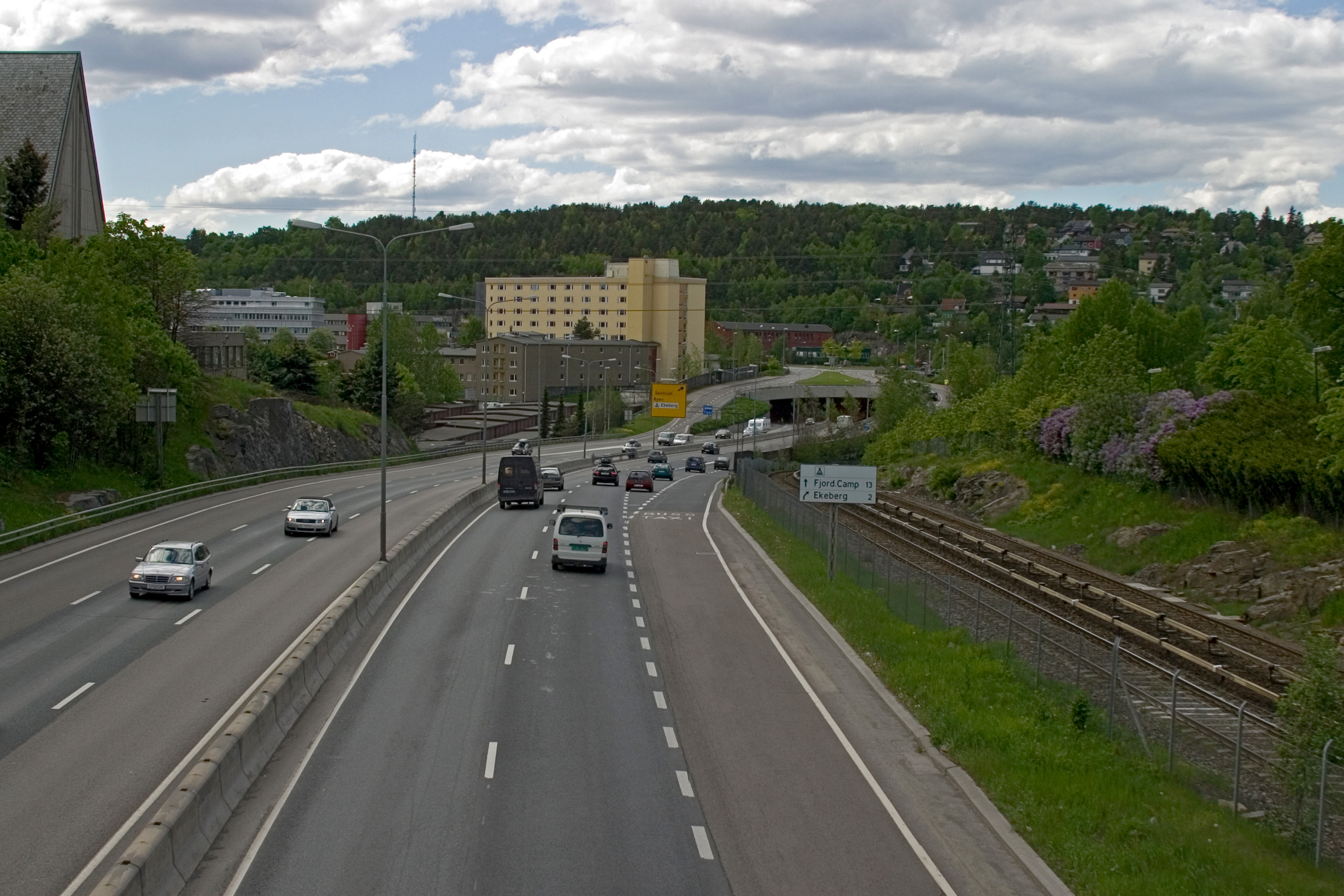 Picture of Adolf Hedins vei (Oslo - Norway)